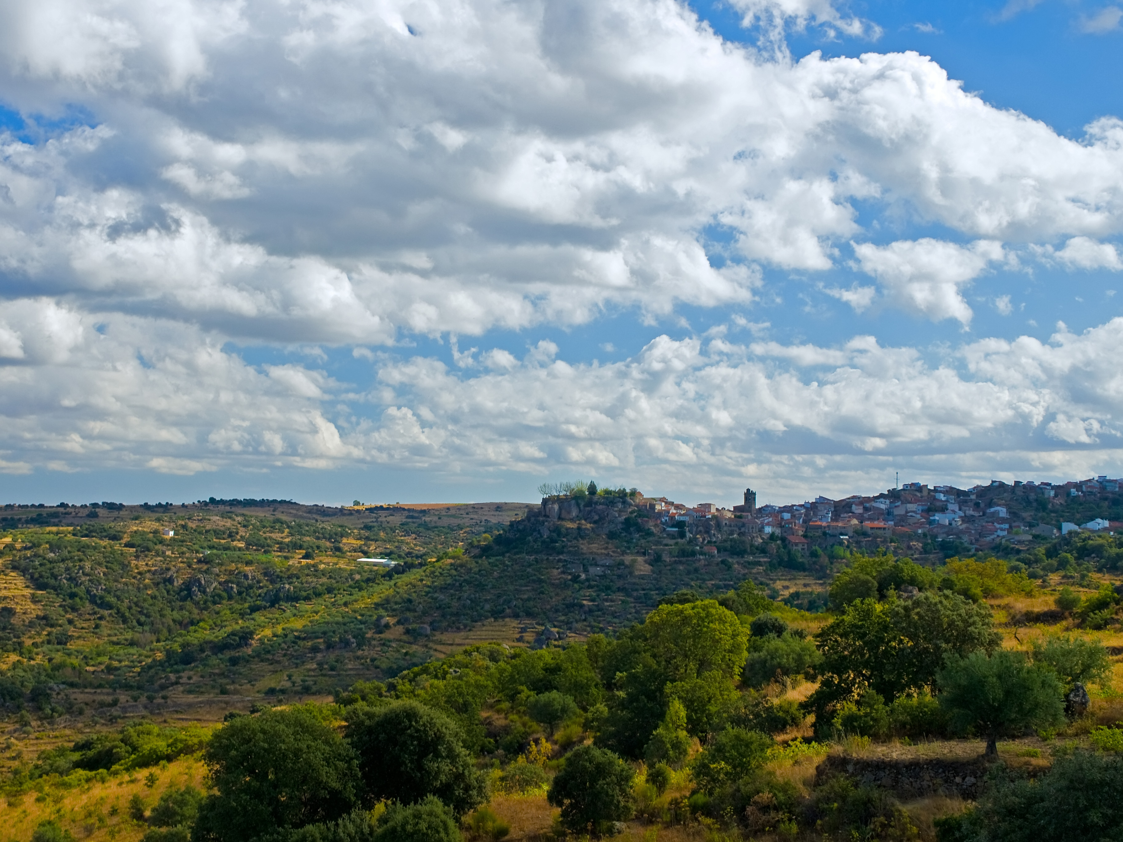 A sight of the spanish town of Fermoselle, in the Arribes del Duero natural park.